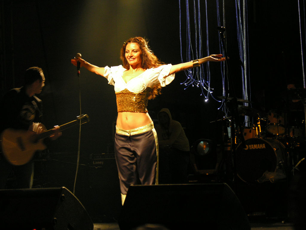 Göksel at a concert. Original description by the photographer: a "hello world" shot